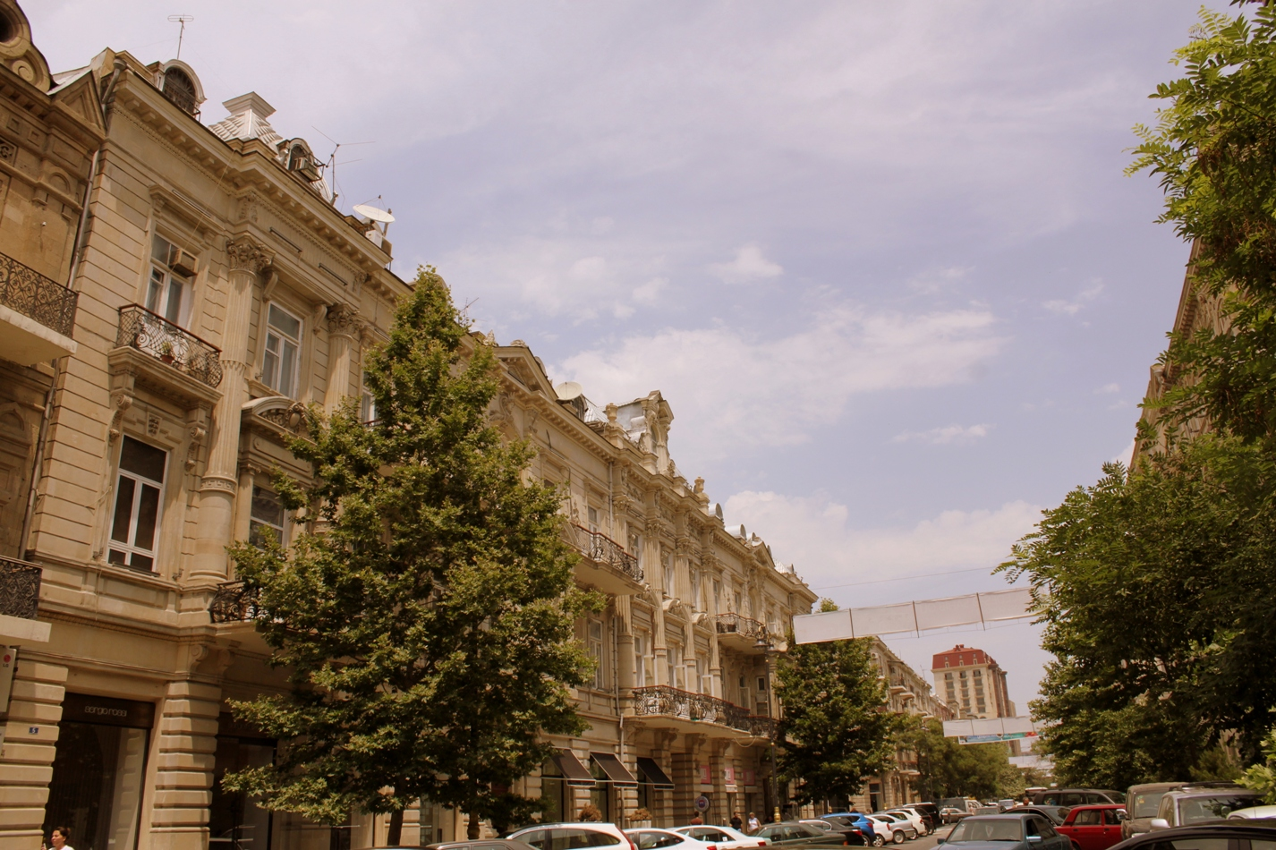 Building on the 28 may street in Baku. Built in 1895 by Ivan Edel (1863 - 1932).